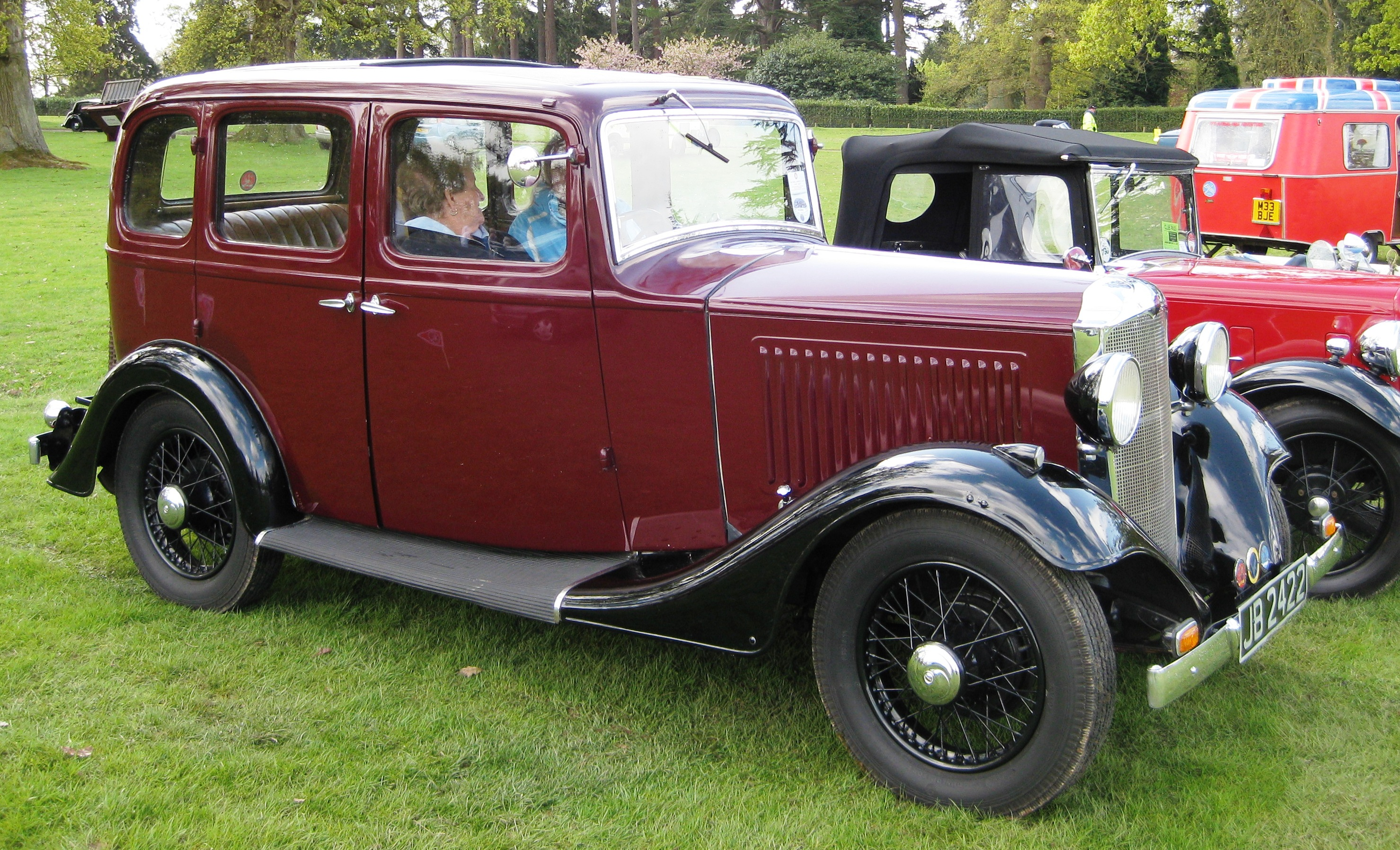 Vauxhall Light 6 6 light sedan at Oldtimerfest at Woburn